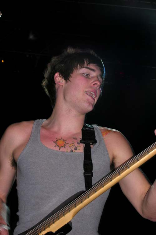 Zack Merrick of American pop punk band All Time Low performing at Ram's Head Live! Holiday Show on December 26, 2007.